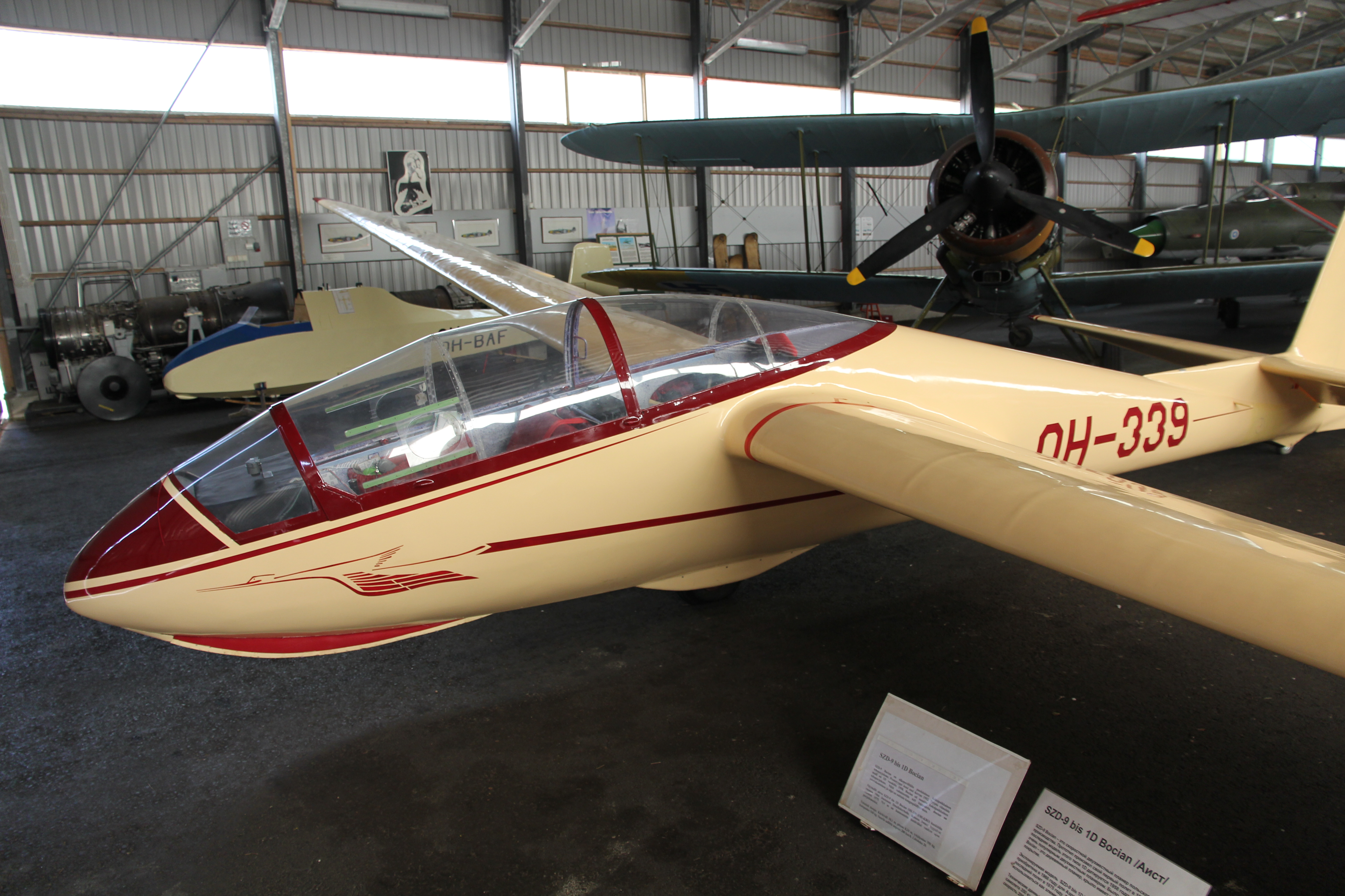 SZD-9 bis 1D Bocian glider OH-339 (OH-KBO) photographed in Karhulan ilmailukerho aviation museum.